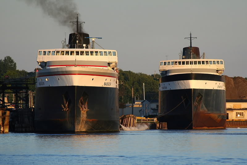 The SS Spartan (right) is laid up at #21⁄2 slip while her sistership, The SS Badger (left) docks at #2 slip in Ludington.